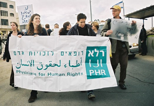 An anti-Occupation demonstration at the Qalandia checkpint in East Jerusalem, involving Physicians for Human Rights-Israel